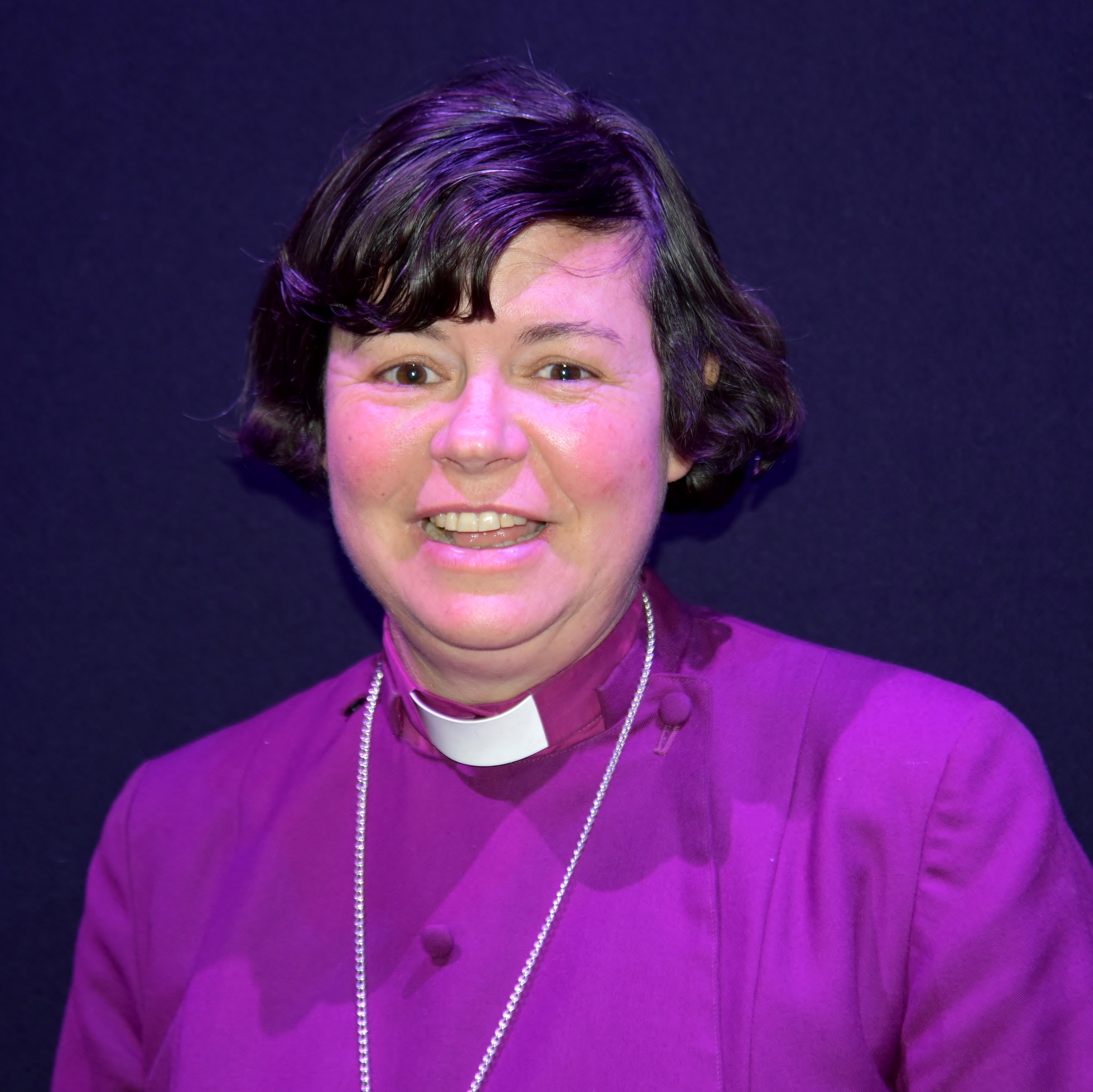 Portrait of Kate Wilmot, assistant bishop in the Anglican Diocese of Perth, at the annual Synod of the diocese at Peter Moyes Anglican Community School, Mindarie